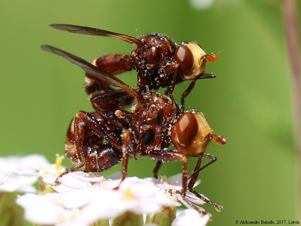 Sicus ferrugineus